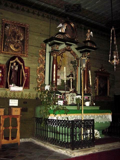 Part of church in Cięcina